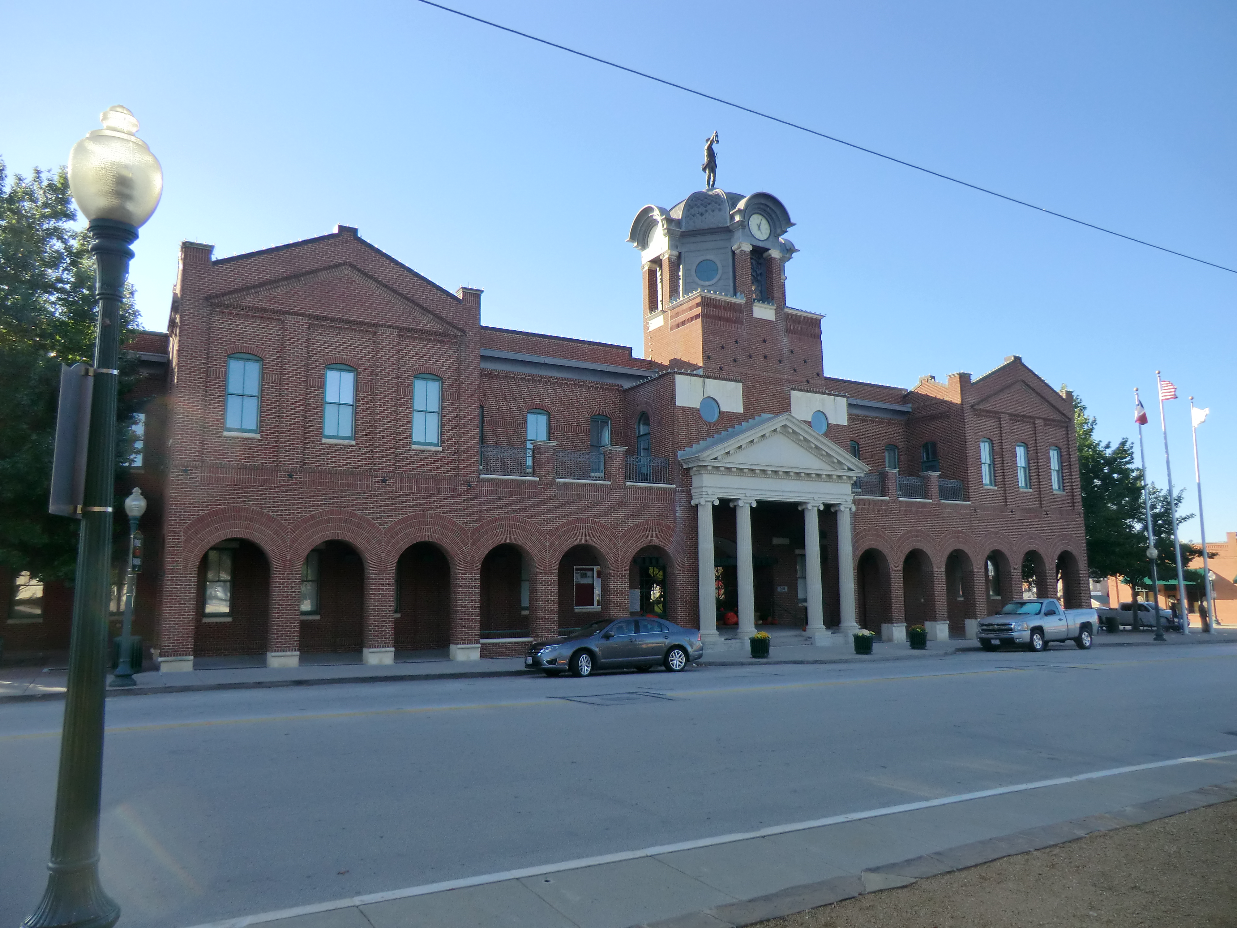 Photo of the Grapevine City Hall in Grapevine, TX.